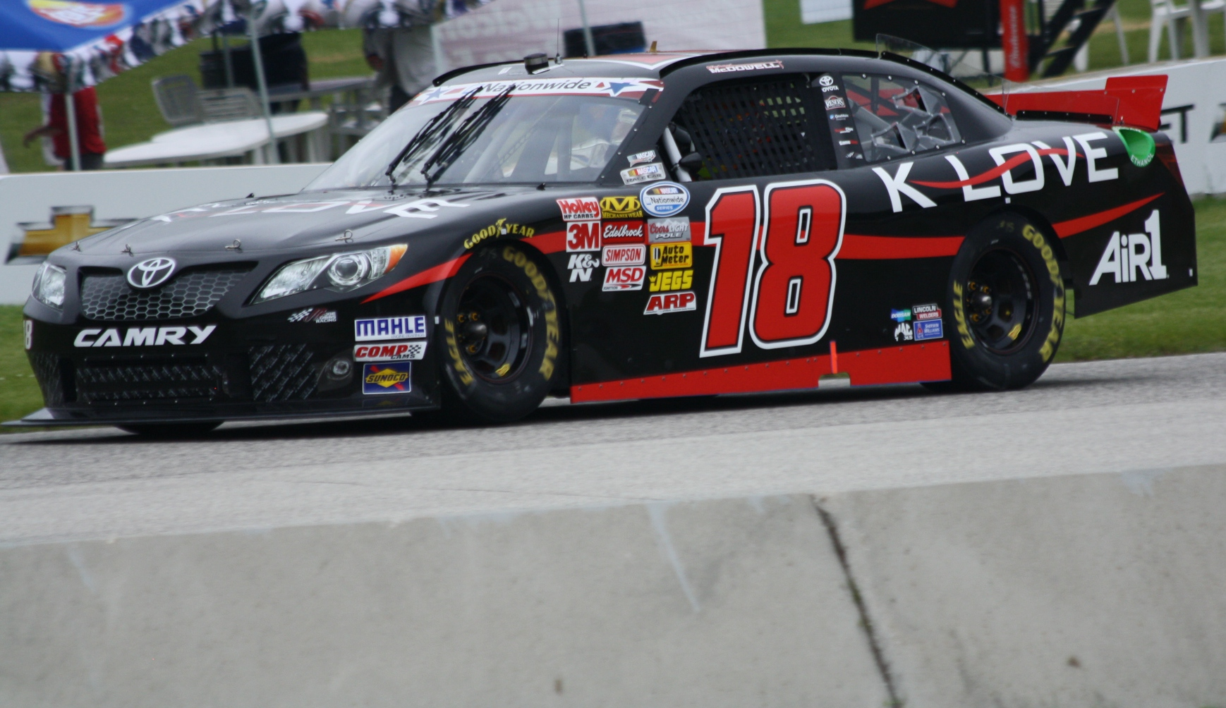 The NASCAR Nationwide car of Michael McDowell during the w:2013 Johnsonville Sausage 200 at Road America. The car was sponsored by Christian radio network K-LOVE